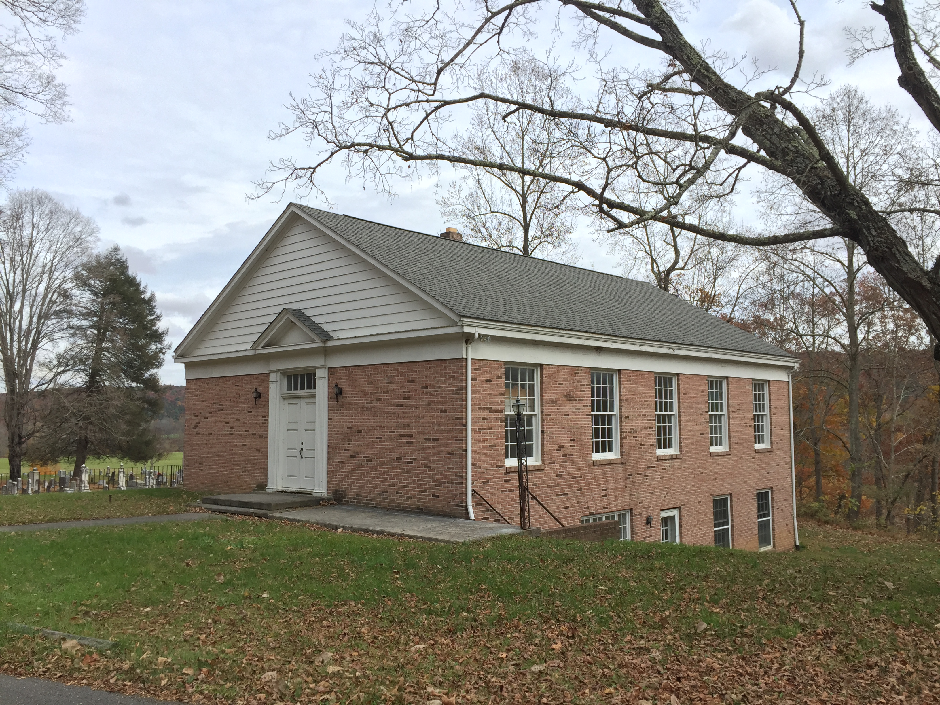 Old Hebron Lutheran Church Community Building along West Virginia Route 259 in Intermont, West Virginia, United States. Photographed by Justin A. Wilcox on October 25, 2015.